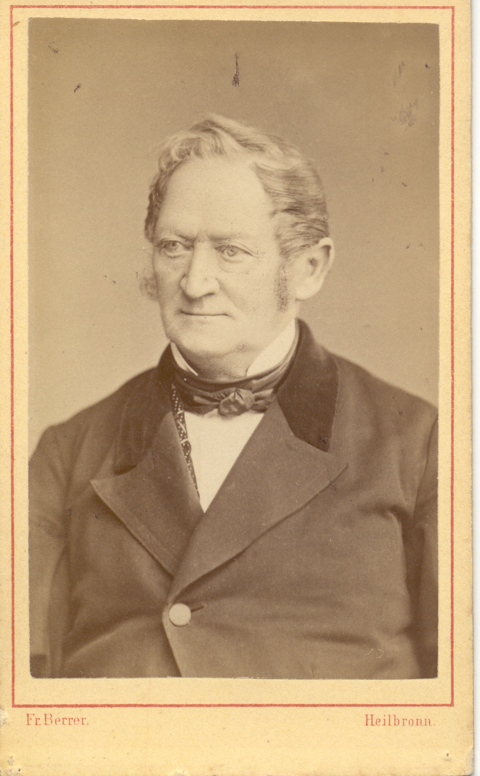 This photograph of Carl Heinrich Theodor Knorr was taken by the photographer Fr. Berrer around 1860.